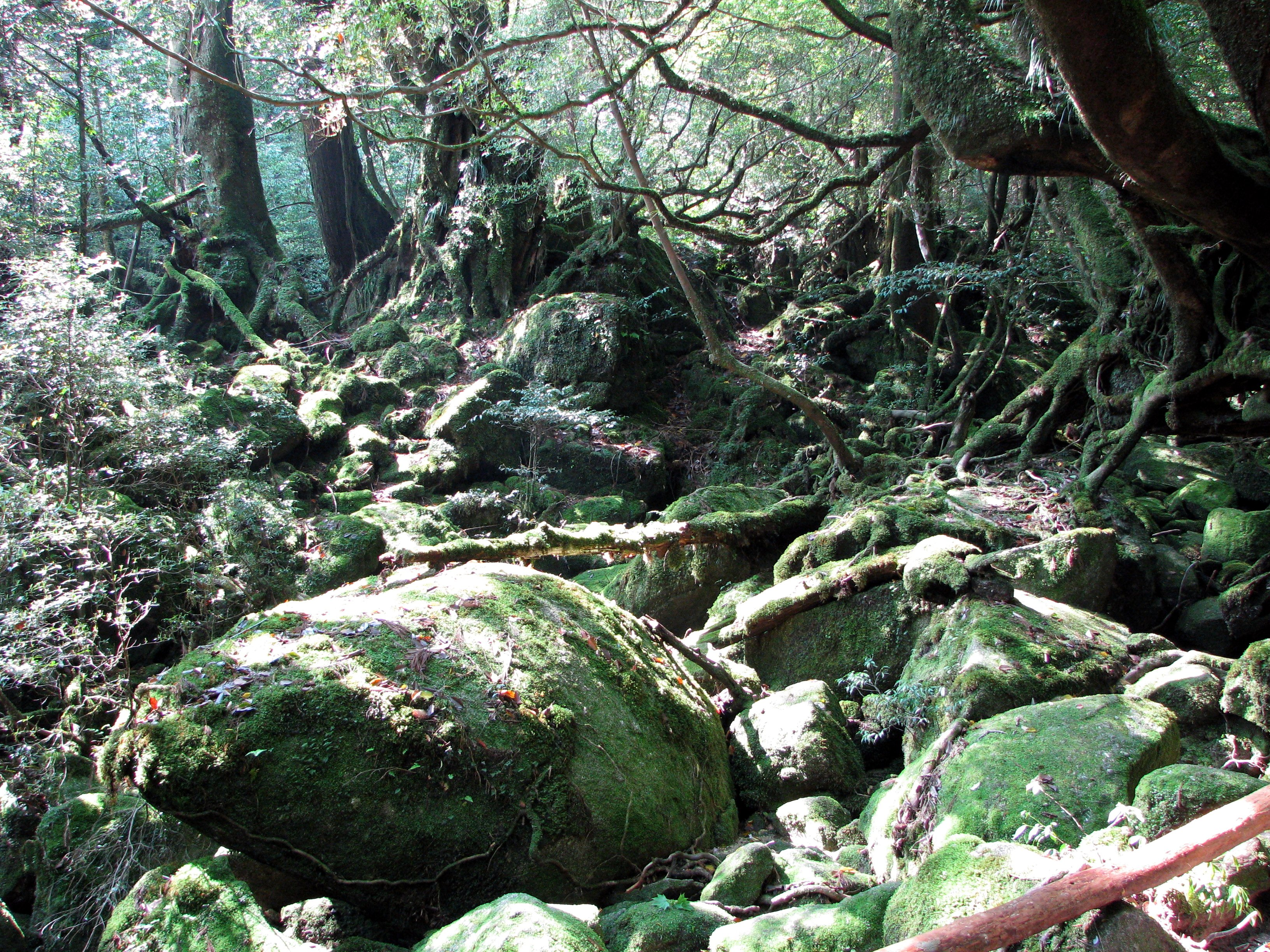 Landscape in and around Shiratani Unsuikyo forest (also known as mononoke hime no mori) on Yakushima.